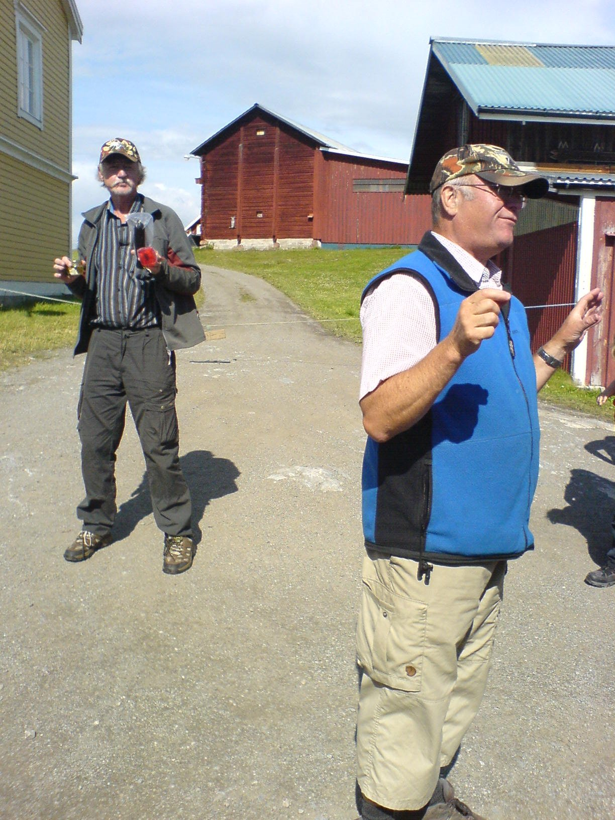 Moose Garden in Orrviken (Östersund Municipality), Bengt Nilsson and Sune Häggmark